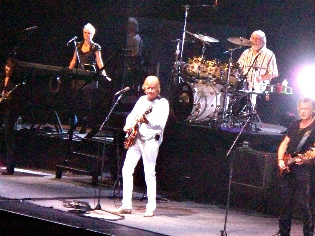 The Moody Blues- a rock band from the 1960s. Pictured in concert on September 13, 2011 performing at the Verizon Wireless Arena in Manchester. They now include Justin Hayward-lead vocals and guitar, John Lodge-vocals and bass, Graem Edge-drums performed at 12, 2011.